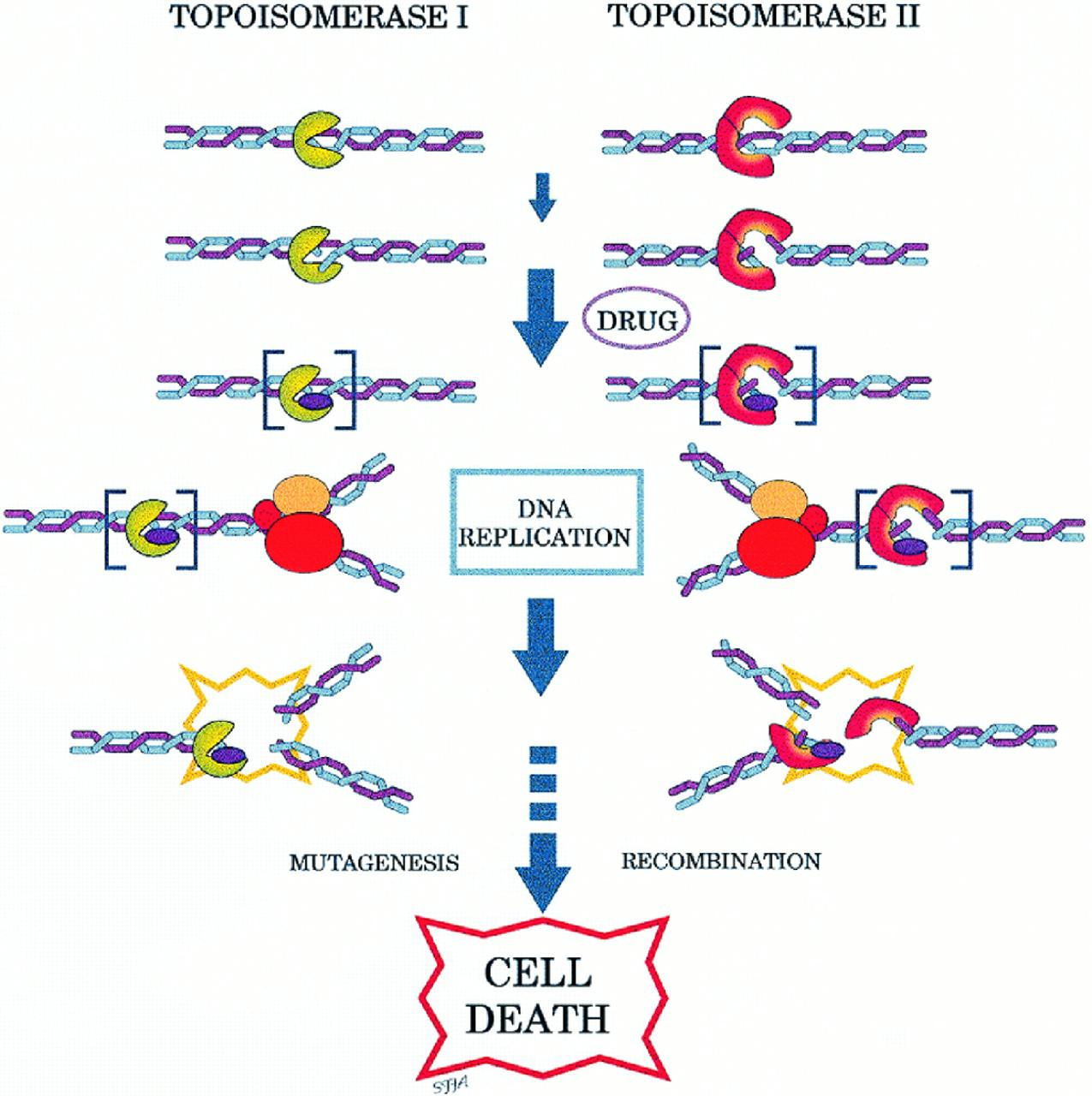 Topoisomerate Inhibitor